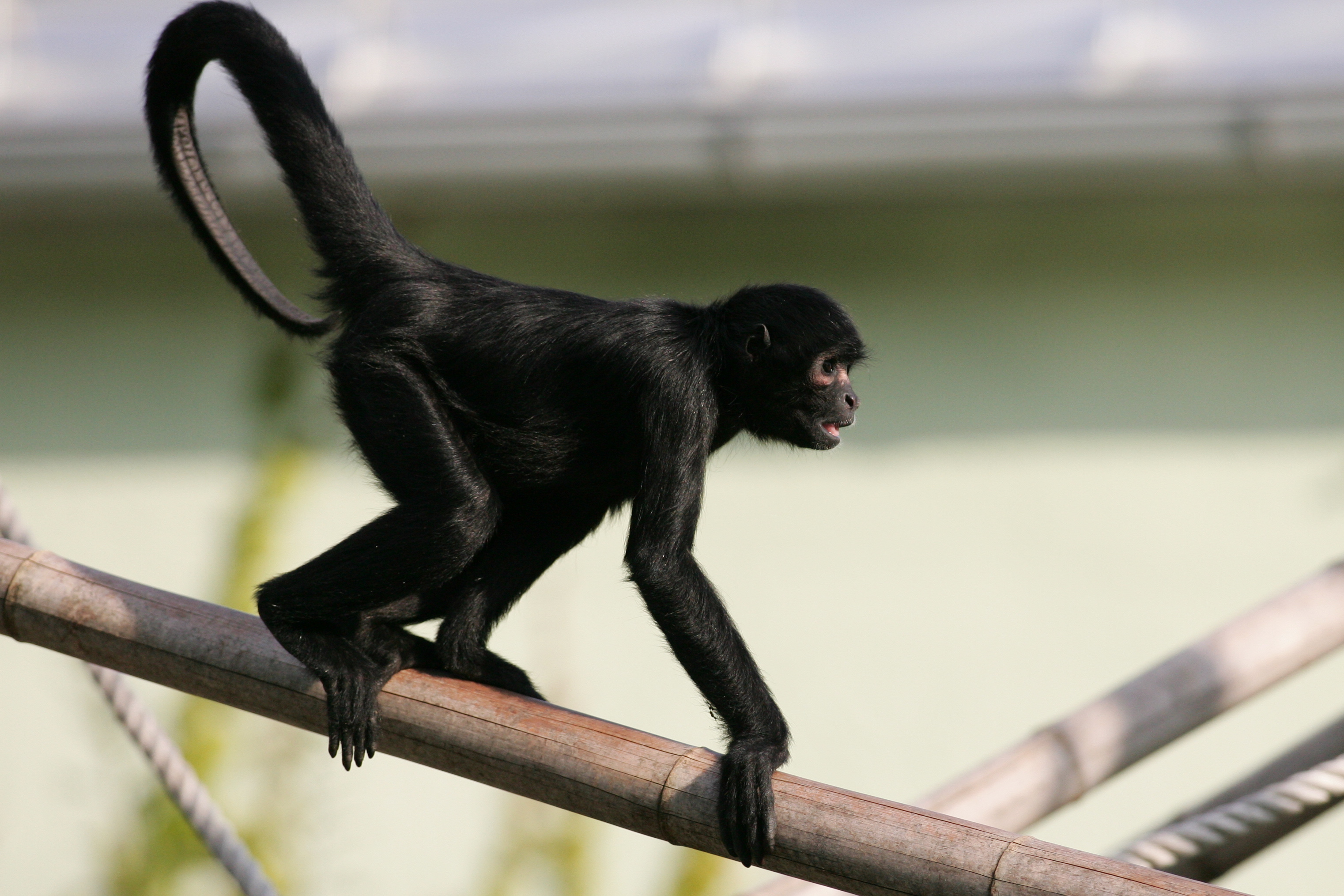 Ateles fusciceps robustus moving.JPG